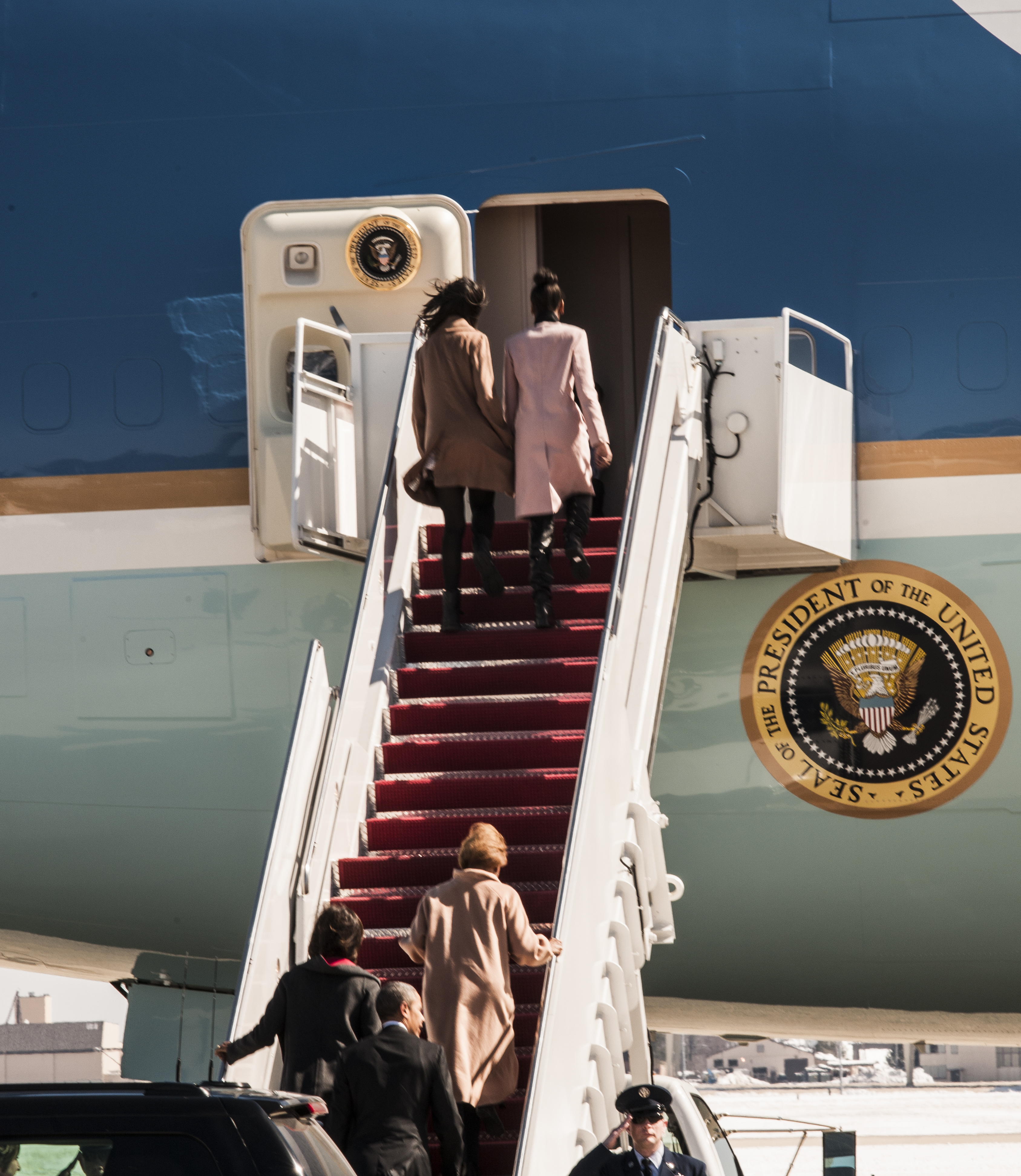 Malia and Sasha Obama prepare to enter Air Force One as President Barack Obama and the first lady, Michelle, follow behind at Joint Base Andrews, Md., March 7, 2015. The first family traveled to join thousands of people gathered in Selma, Ala., ahead of Obama’s speech at the 50th anniversary of a landmark event of the civil rights movement. (U.S. Air Force photo by Senior Master Sgt. Kevin Wallace/RELEASED)